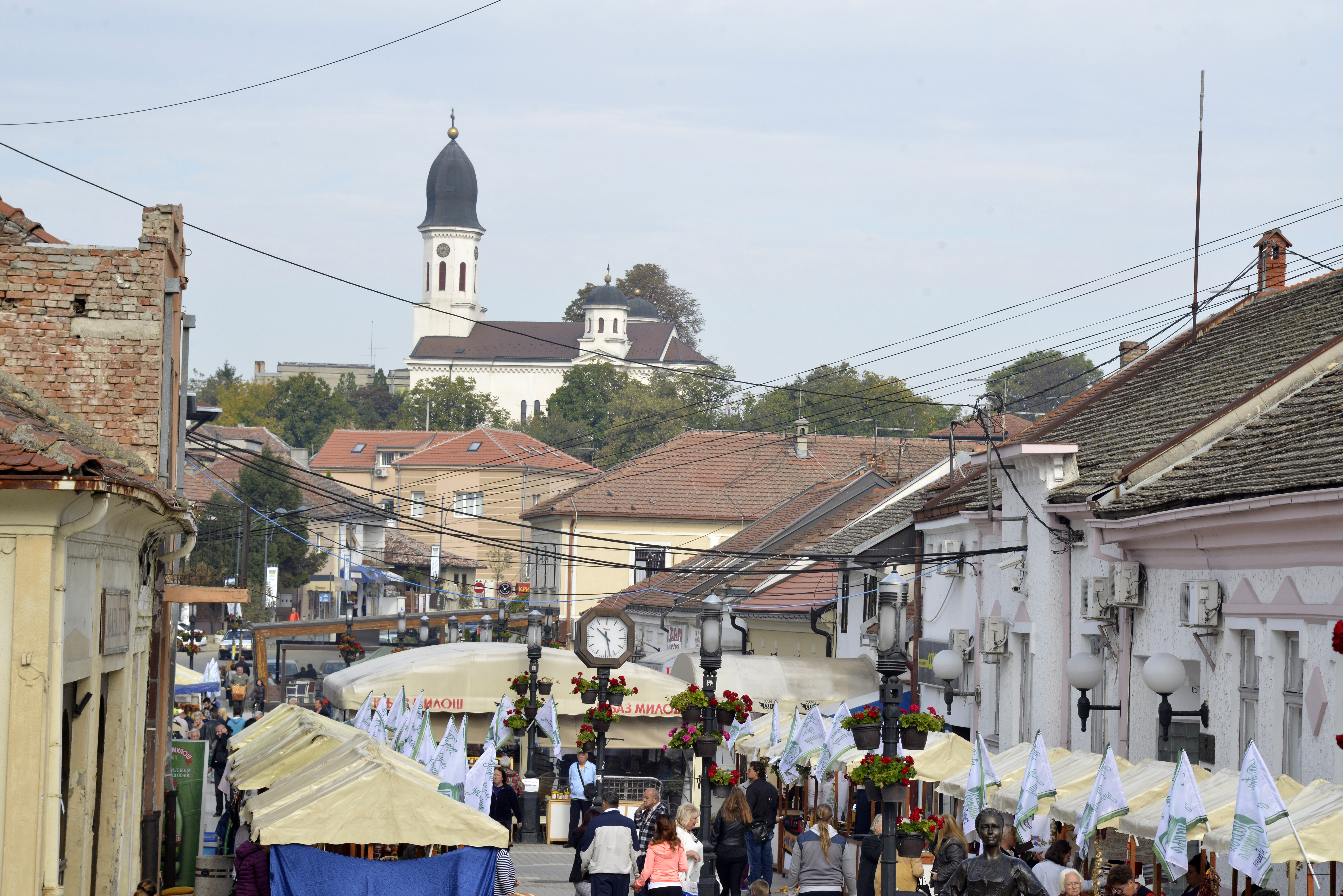 Grocka's Čaršija (Grocka, a town near Belgrade), Cultural heritage monument in Serbia